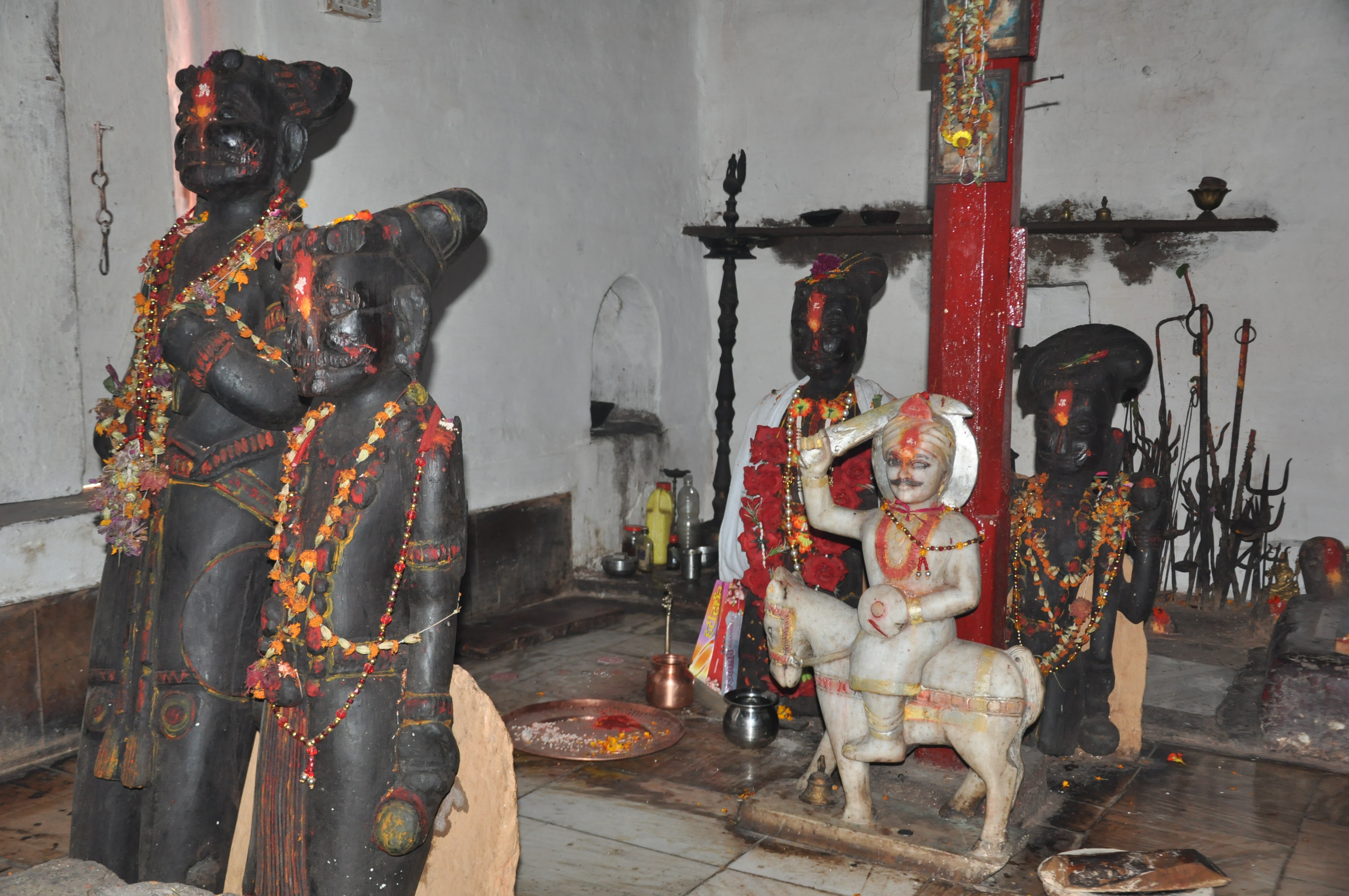 This temple is about 40 kms from Ranikhet (a hill town of Uttarakhand, India) about 4kms steep walk from Binta Bridge